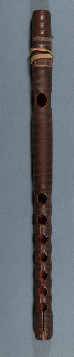 A Japanese Ryuteki fue